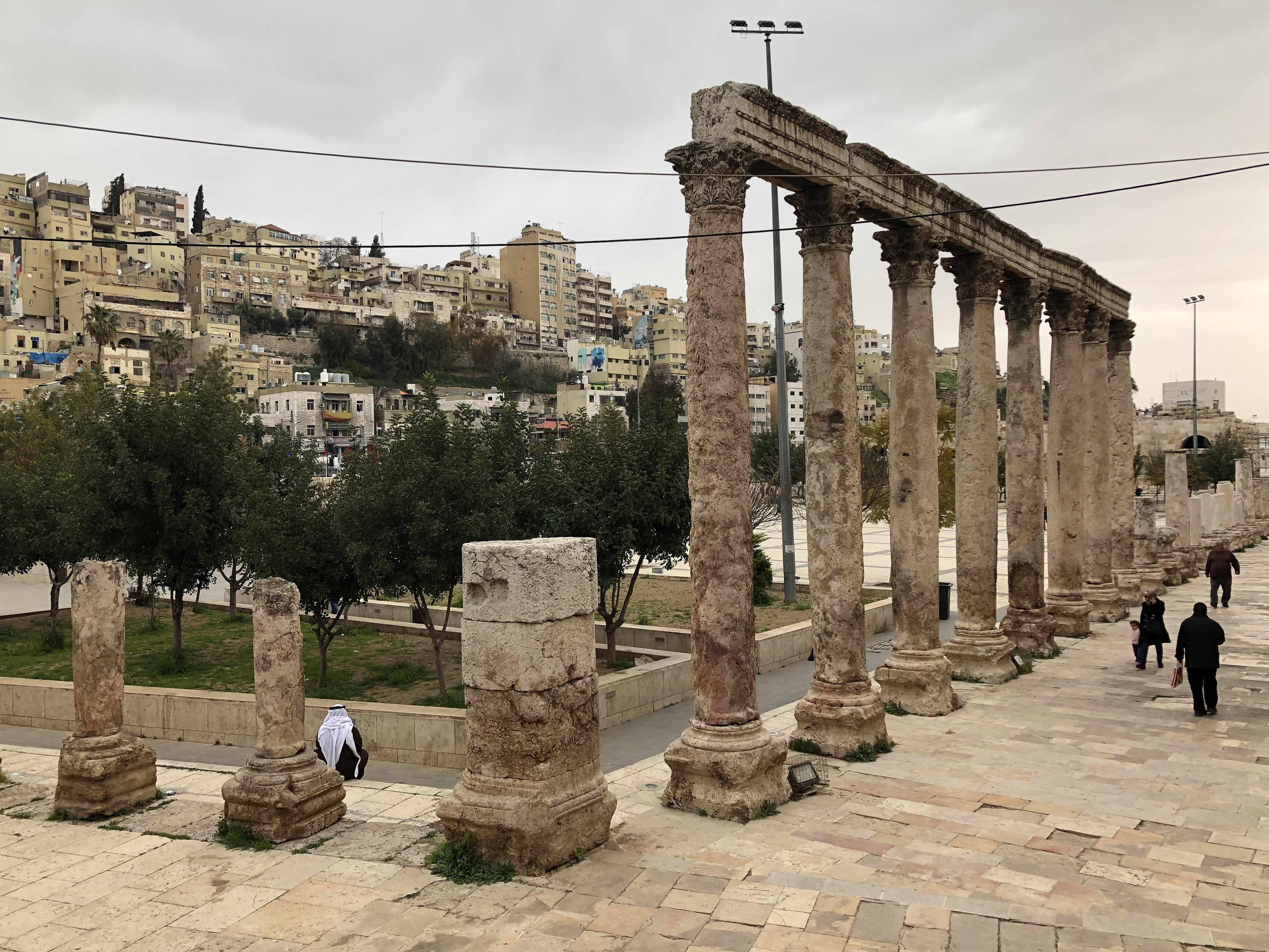 Amman Forum South-western colonnade